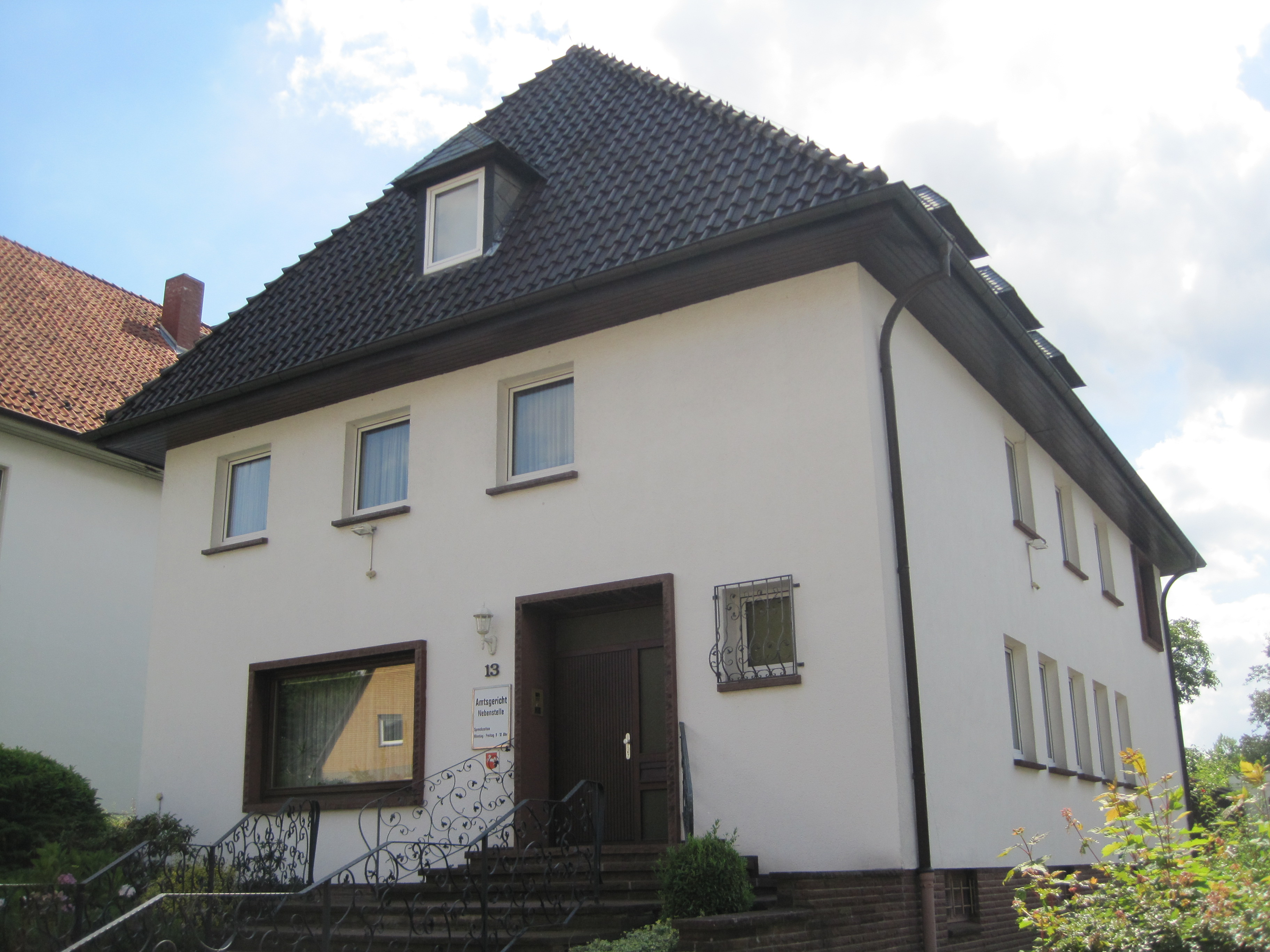 Courthouse Amtsgericht Stadthagen, Stadthagen, Germany